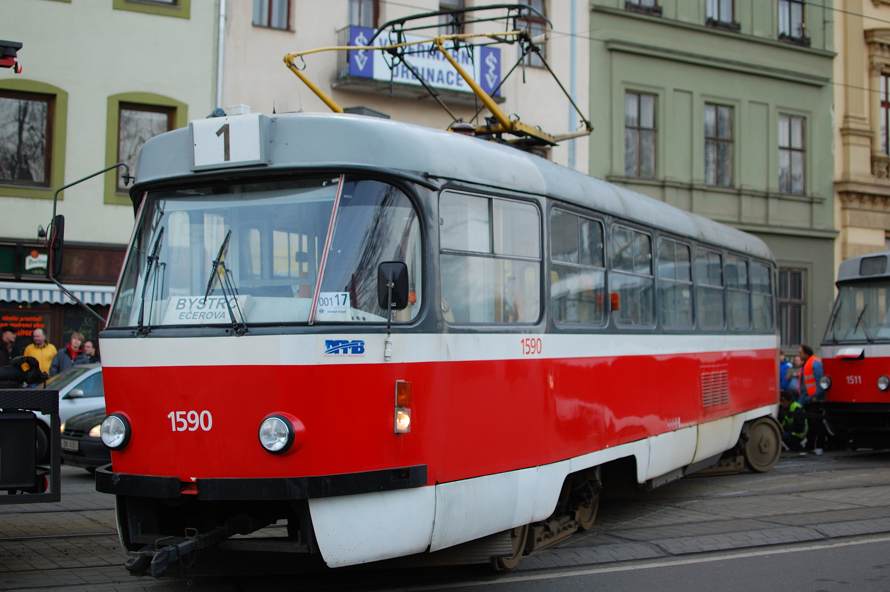 Derailed Tatra T3 tram in Brno, Czech Republic.